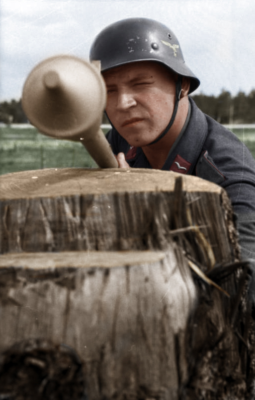 This is a retouched picture, which means that it has been digitally altered from its original version. Modifications: recolored by User:Ruffneck88. == Recolored Version of this image genutztes Programm Recolored v1.1. Russland, Luftwaffensoldat mit Panzerabwehrwaffe 15px|link= Photographer HoepnerArchive description Description provided by the archive when the original description is incomplete or wrong. You can help by reporting errors and typos at Commons:Bundesarchiv/Error reports. Russland-Mitte.- Gefreiter der Luftwaffe bei Ausbildung an einer "Faustpatrone klein, 30 m"; PK Eins Kp Lw zbVTitle Russland, Luftwaffensoldat mit Panzerabwehrwaffe Depicted place RussiaDate 1944date QS:P,+1944-00-00T00:00:00Z/9Collection German Federal Archives Native nameDas BundesarchivLocationKoblenz (headquarters)Coordinates50° 20′ 32.71″ N, 7° 34′ 21.22″ E Established1946Web page control : Q685753 VIAF: 137346469 ISNI: 0000 0004 0555 2728 LCCN: n92025526 NLA: 36455393 Open Library: OL55798A WorldCat institution QS:P195,Q685753Current location Propagandakompanien der Wehrmacht - Heer und Luftwaffe (Bild 101 I)Accession number Bild 101I-672-7634-11 Source This image was provided to Wikimedia Commons by the German Federal Archive (Deutsches Bundesarchiv) as part of a cooperation project. The German Federal Archive guarantees an authentic representation only using the originals (negative and/or positive), resp. the digitalization of the originals as provided by the Digital Image Archive.